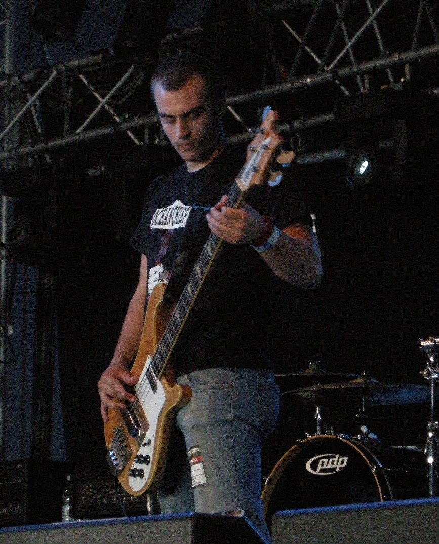 Oskar Rydén, bass player of Swedish metal band Kongh, performing at Metaltown 2009